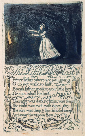 The Little Boy Lost illuminated drawing Songs of Innocence and of Experience, copy F, 1789, 1794 (Yale Center for British Art): electronic edition object 16 (Bentley 13, Erdman 13, Keynes 13)